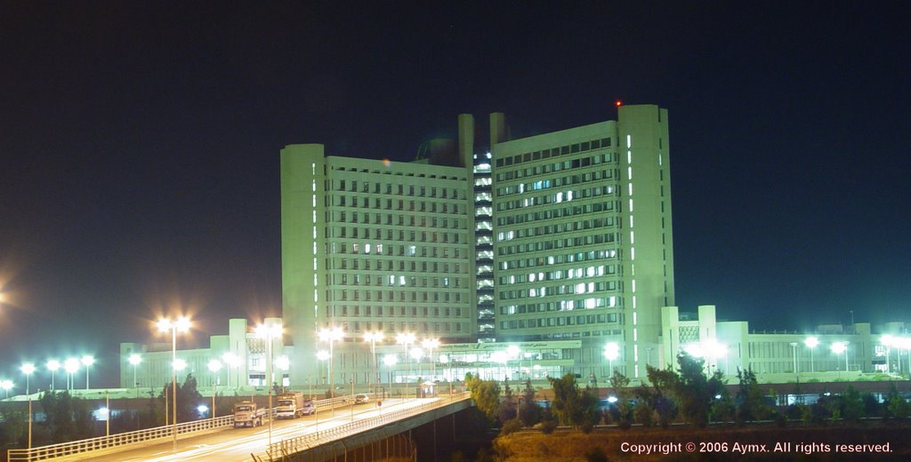 A picture of King Abdullah University Hospital (KAUH) which is the hospital of Jordan University of Science and Technology (JUST). Photo by Aymx